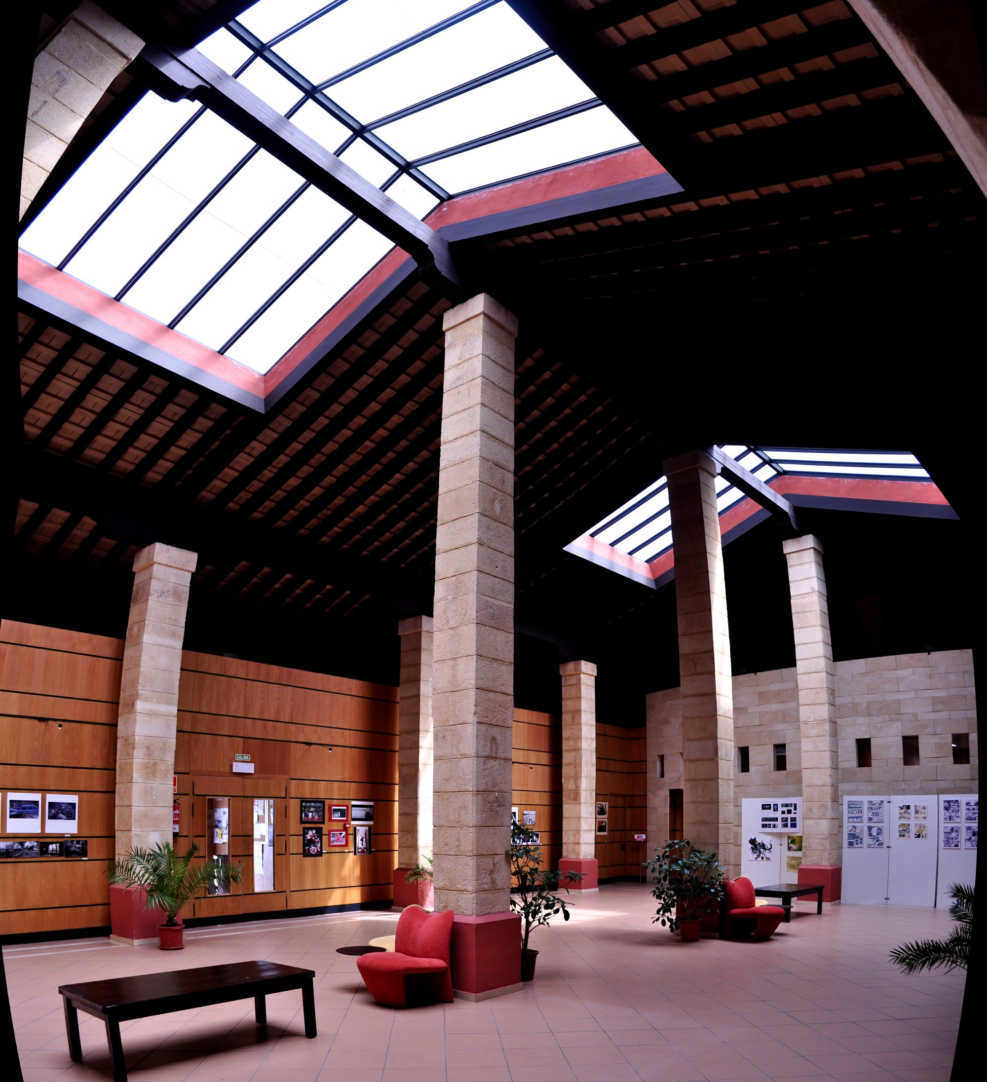 Youth Centre in Jerez